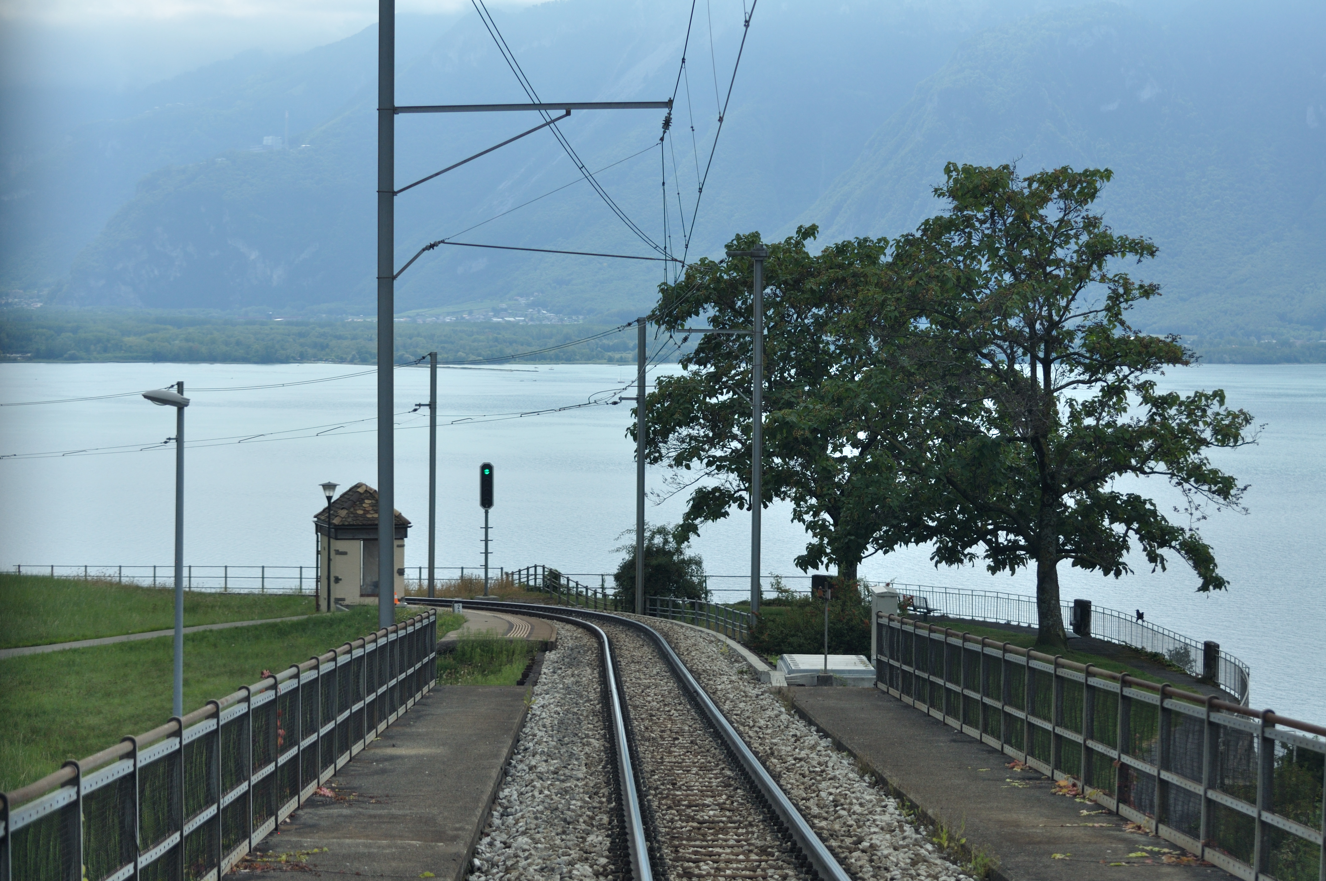 Switzerland, Vaud, impressions from the drivers cabin on the Chemin de fer Montreux Oberland bernois. For exact location see geodata.